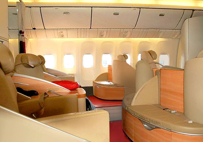 Lounge First Class Paris